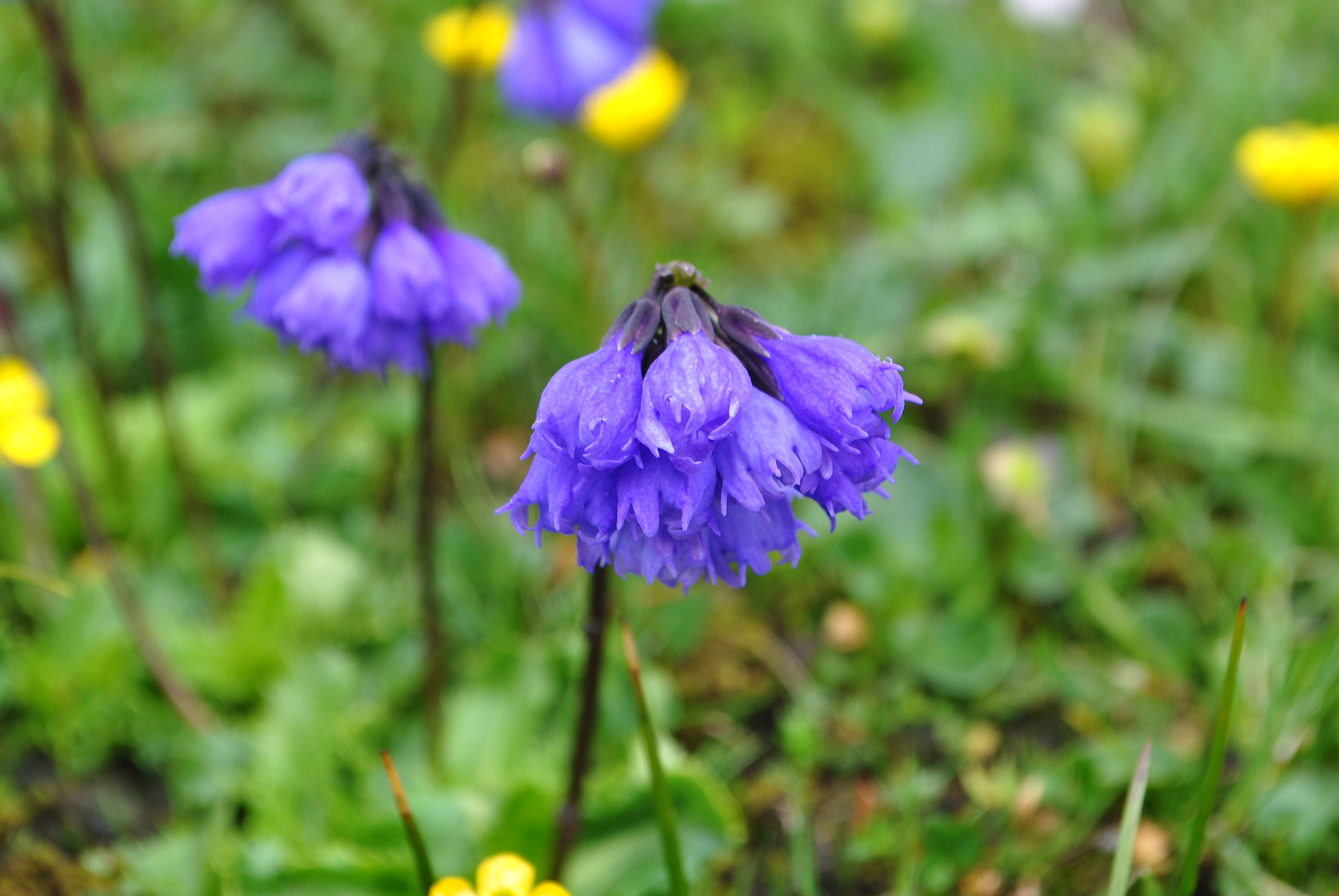 Primula amethystina subsp. brevifolia Balang Shan, June 2016